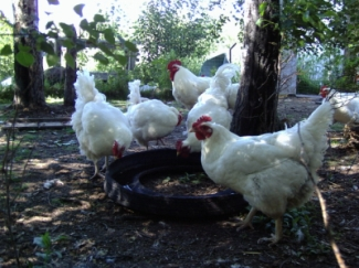 A photo of chickens drinking water